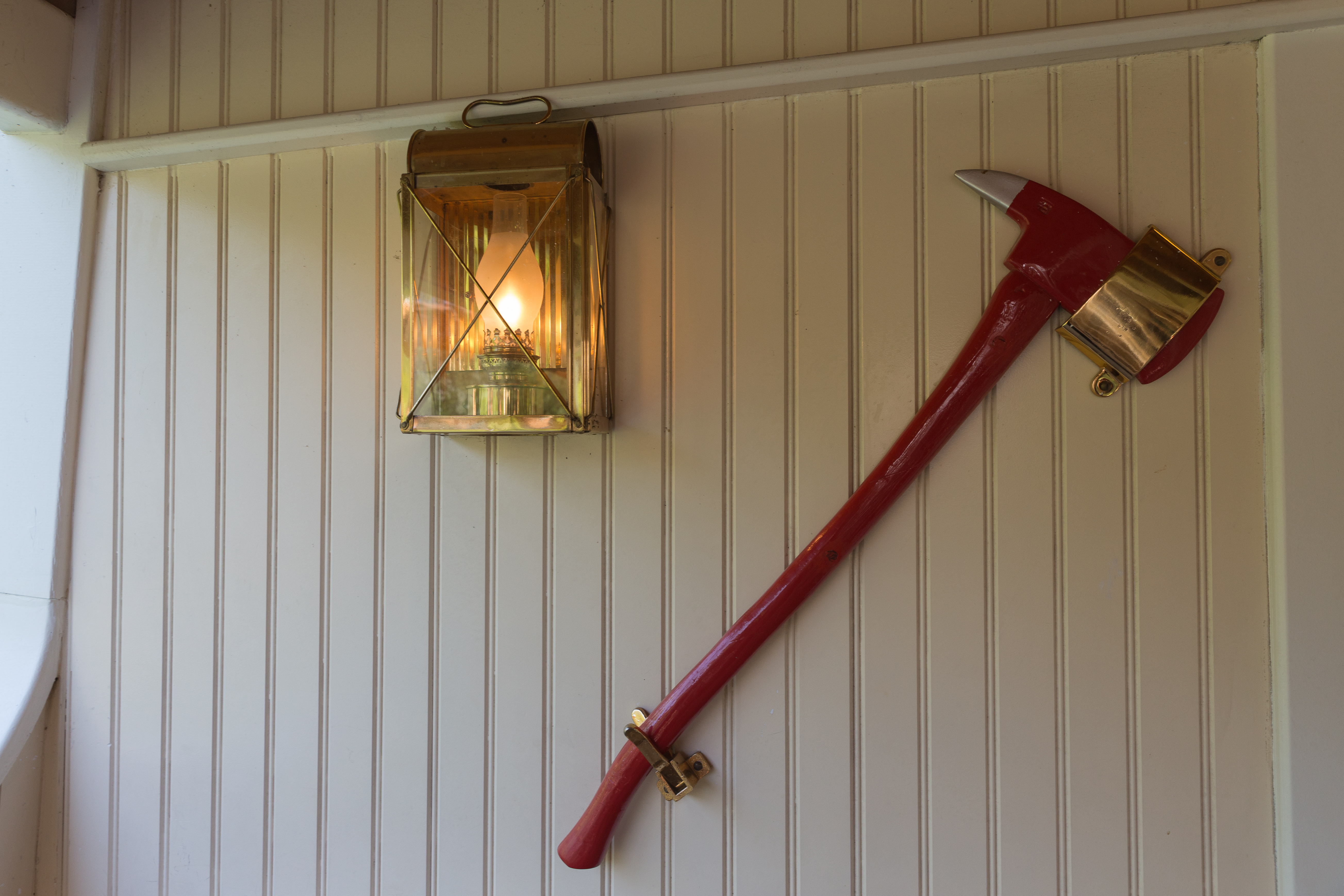 Wall lamp and emergency ax on the Molly Brown a replica of a paddle steamer from the Molly Brown Riverboat attraction at Disneyland Paris.